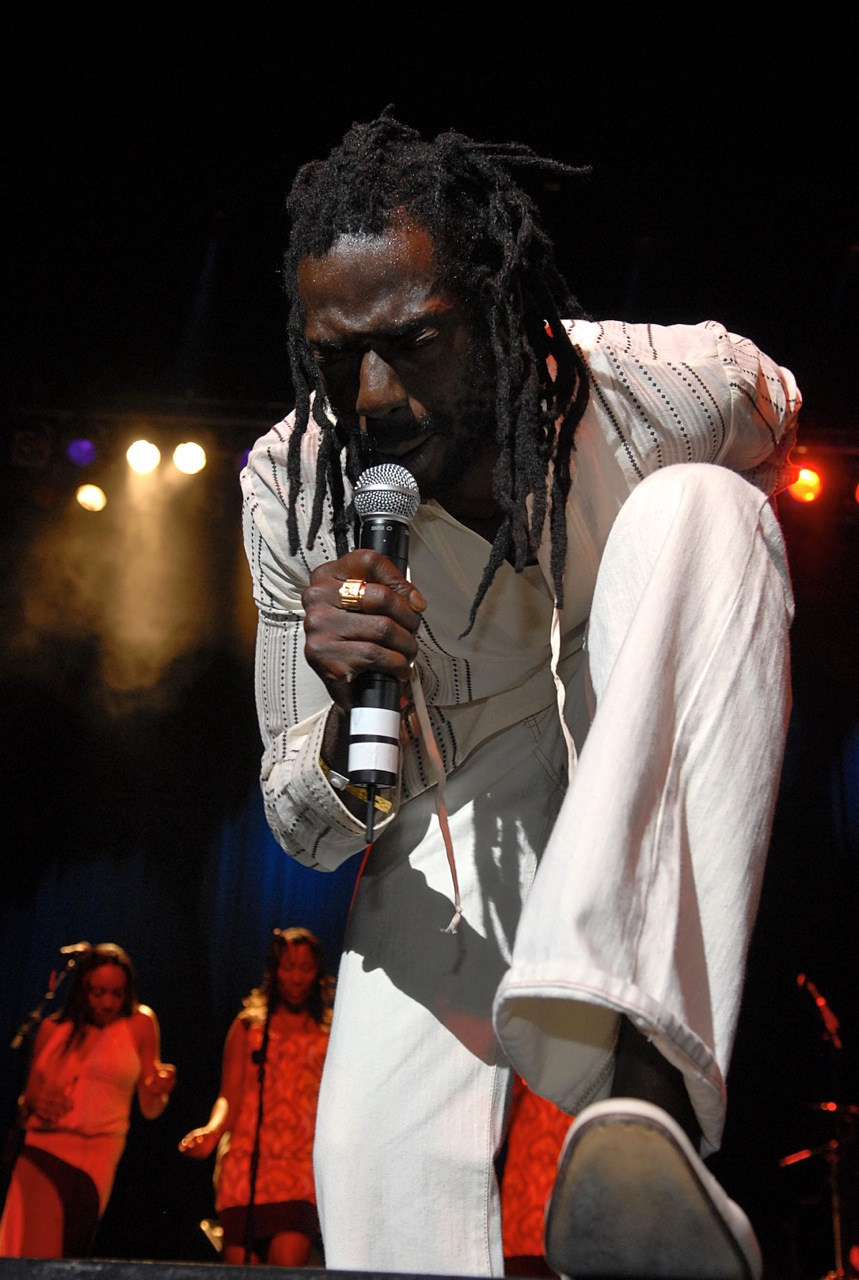 Buju Banton performing at New York's Apollo theater during the 26th International Reggae & World Music Awards (IRAWMA)